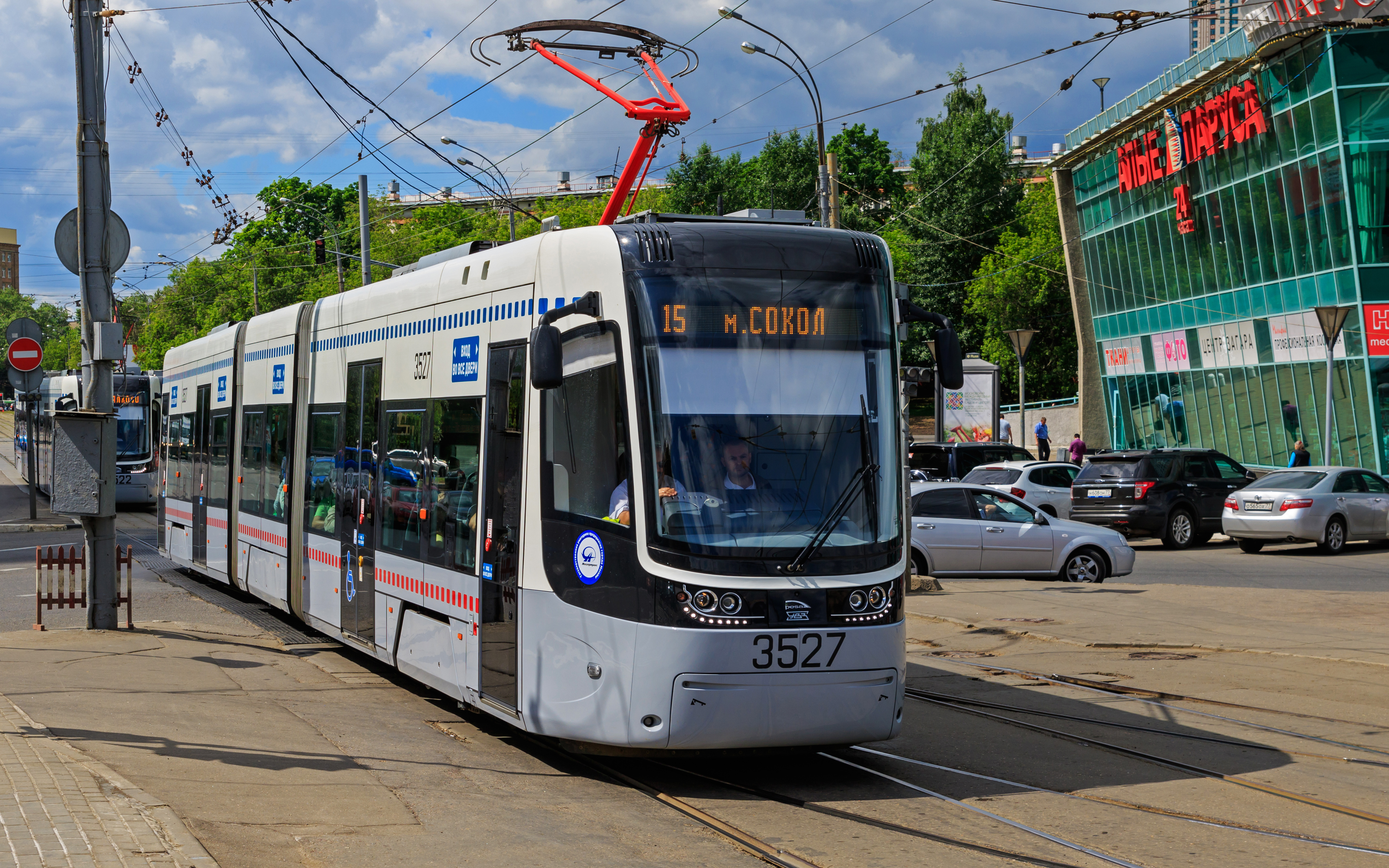 A tram at Shchukinskaya metro station in Moscow